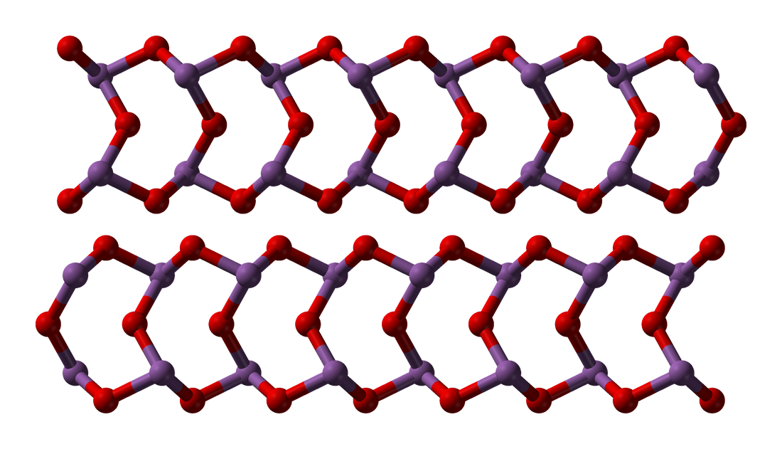 Ball-and-stick model of part of the crystal structure the mineral valentinite, a form of antimony trioxide, Sb2O3. X-ray crystallographic data from Dalton Trans. (2004), 23-29. Model constructed in CrystalMaker 8.1. Image generated in Accelrys DS Visualizer.